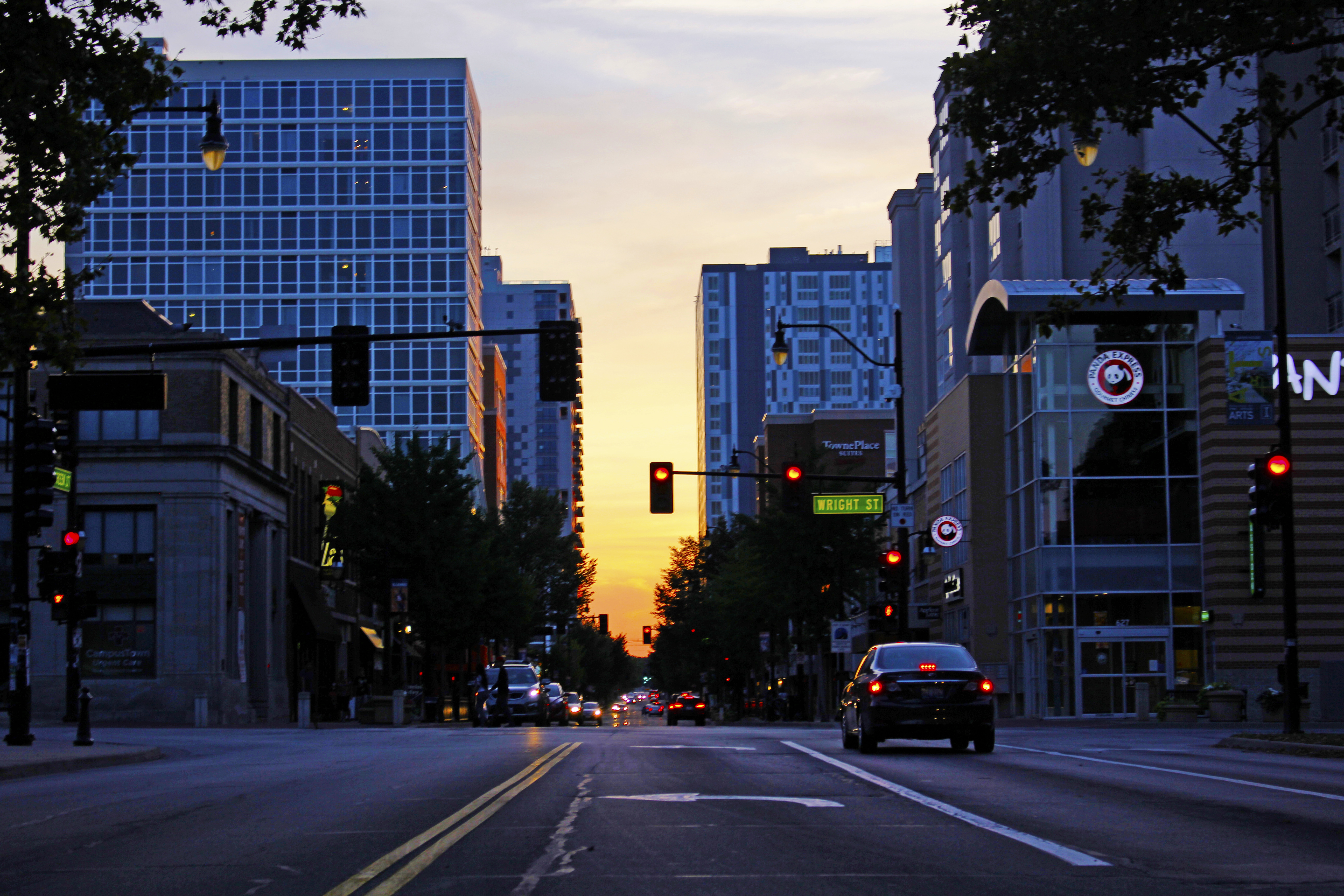 Image of Campustown (Champaign, Illinois) located on the campus of University of Illinois at Urbana–Champaign